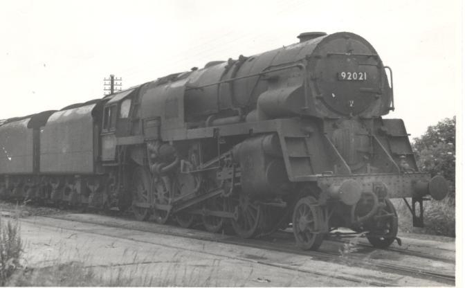 BR 9F Crosti 2-10-0 92021 at Wellingborough shed in 1959